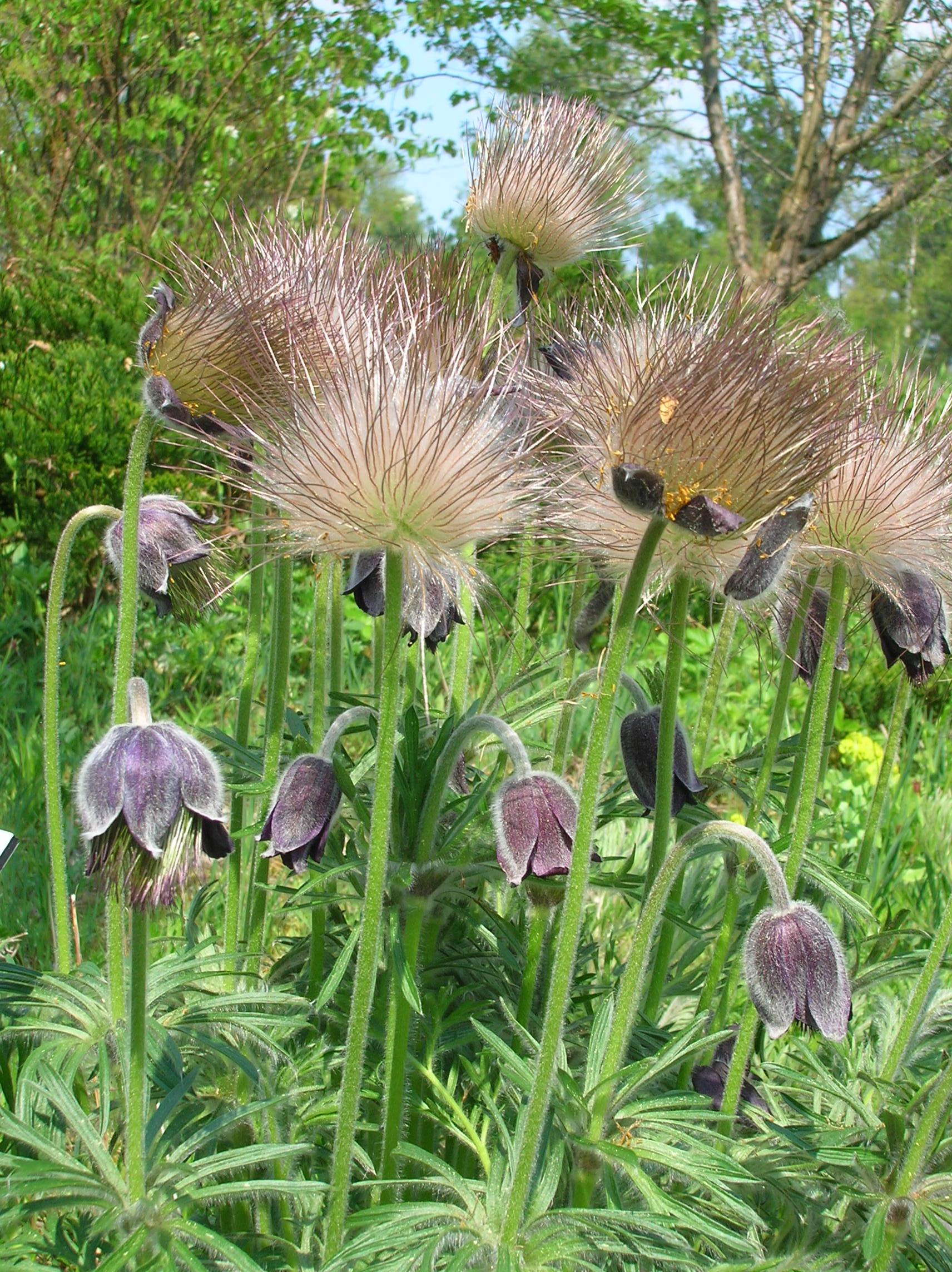 Pulsatilla pratensis subsp. bohemica, photo taken at the Ecological-Botanical Gardens in Bayreuth, Germany